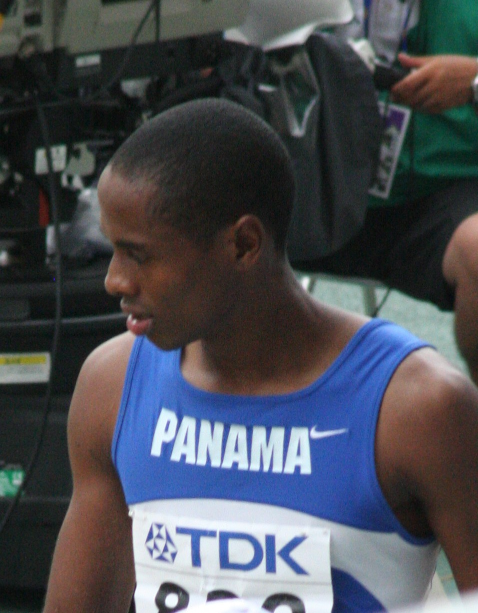 World Athletics Championships 2007 in Osaka - Panamese long jumper Irving Saladino